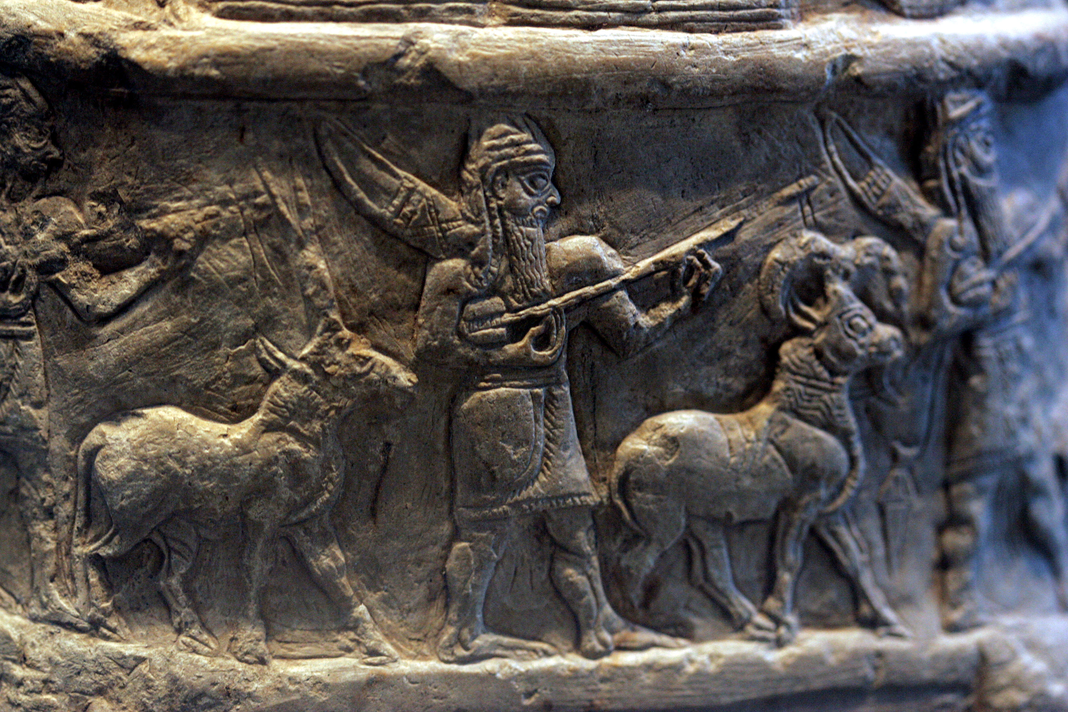 ArtistUnknownDescription Unfinished kudurru (boundary marker) with a horned serpent (symbol of Marduk) around pillar at bottom. The most proeminent gods are featured as symbols. The space for the inscription was left unused. [1] White limestone Kassites era, found in Susa Found by J. de Morgan Current location (Inventory)Louvre Museum Native nameMusée du LouvreLocationParisCoordinates48° 51′ 37″ N, 2° 20′ 15″ E Established1793Website control : Q19675 VIAF: 257711507 ISNI: 0000 0001 2260 177X ULAN: 500125189 LCCN: n80020283 NLA: 35912436 WorldCat Richelieu Rez-de-chaussée Mésopotamie, IIe et Ier millénaires avant J.-C. Salle 3 [2]Accession numberSb 25Source/PhotographerRama Unfinished kudurru (boundary marker) with a horned serpent (symbol of Marduk) around pillar at bottom. The most proeminent gods are featured as symbols. The space for the inscription was left unused. [1] White limestone Kassites era, found in Susa Found by J. de Morgan